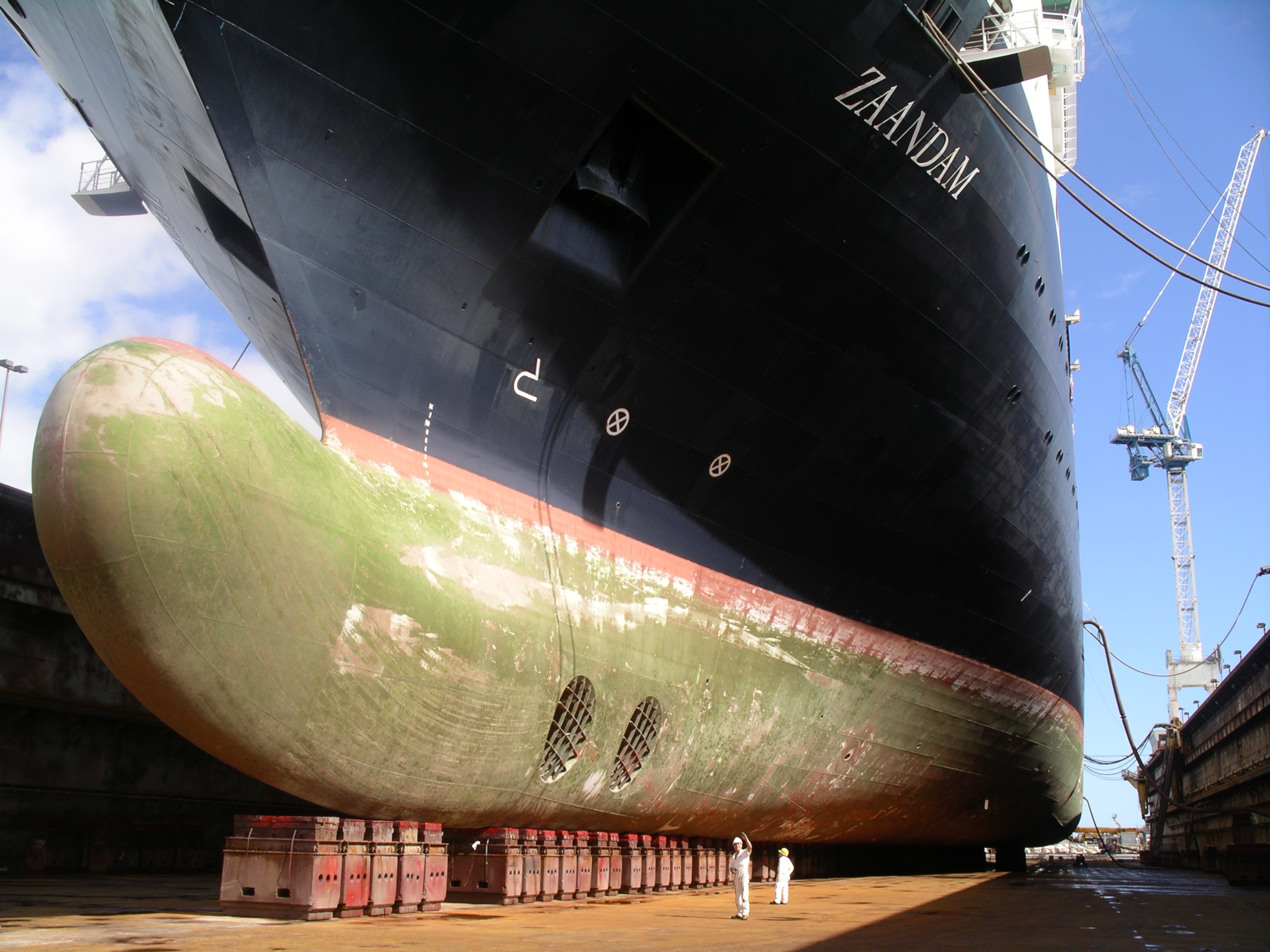 A bulbous bow with a complex shape. The through tunnels in the side are bow thrusters.